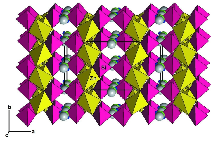 Crystal structure of junitoite. Gray spheres – Ca, green spheres – Ow5, small blue spheres – H, yellow tetrahera – ZnO4, purple tetrahedra – SiO4